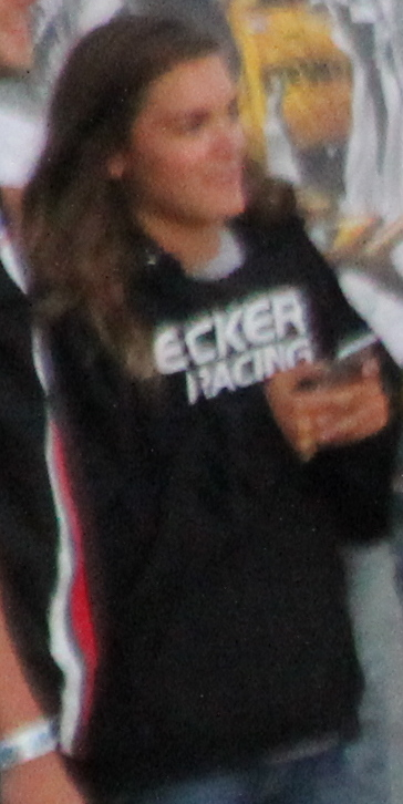 Claire Decker at the 2015 Slinger Nationals.